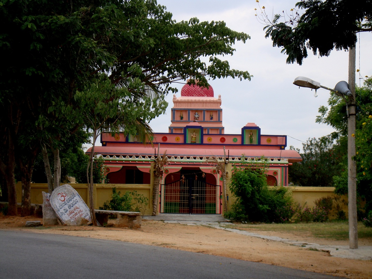 Sri Vigneshwara Swamy Temple in Sitamma Gutta, Gongivaripalli